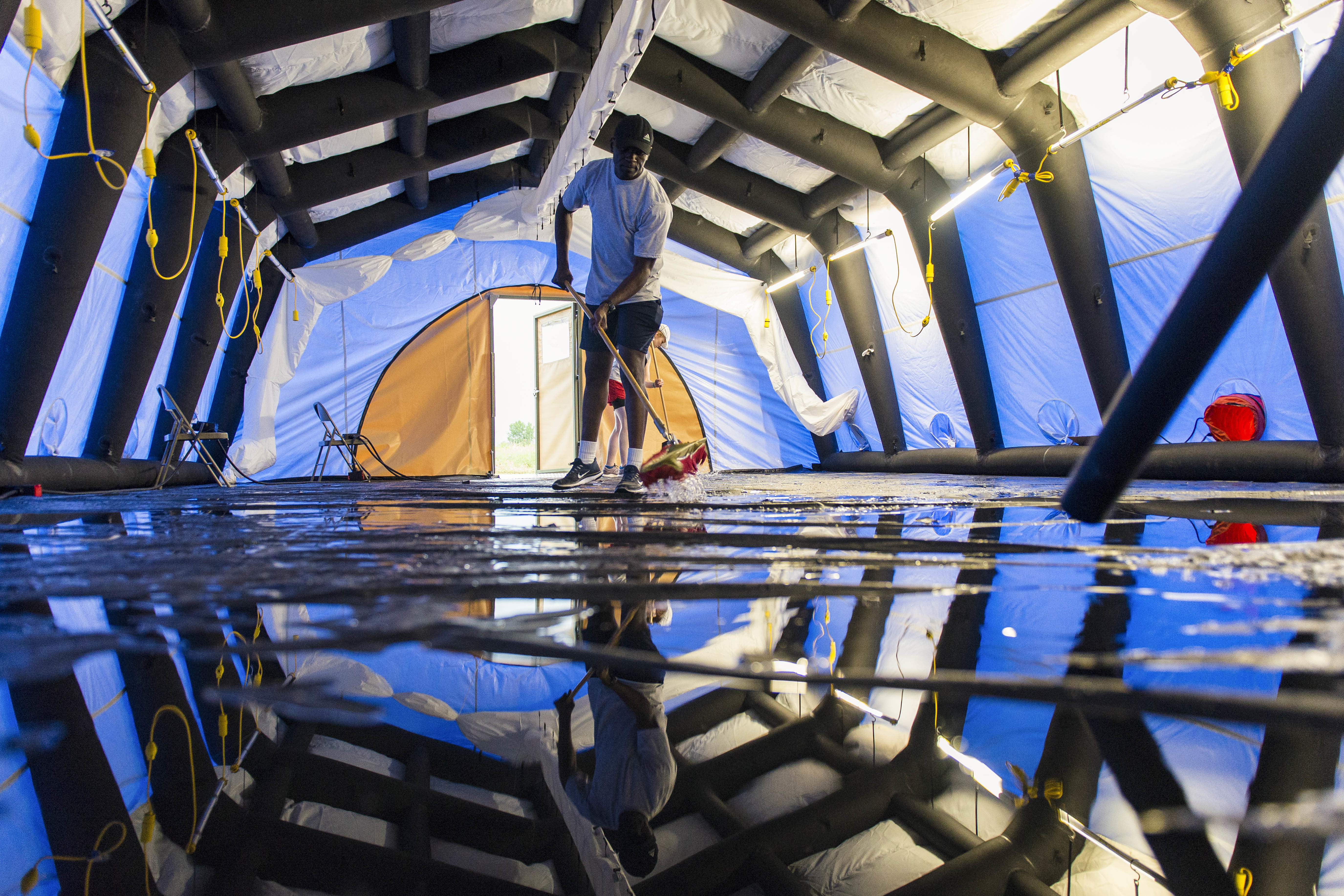 U.S. Air Force Airman 1st Class Geoffrey Elungata, a biomedical equipment technician assigned to the 175th Wing, Maryland Air National Guard, removes water from a flooded air inflatable shelter at the Delta Area Economic Opportunity Corporation Tri-State Innovative Readiness Training 2019 site in Sikeston, Mo., June 16, 2019. A strong thunderstorm flooded the air inflatable shelter in which the service members were operating a temporary medical clinic. (U.S. Air National Guard photo by Senior Airman Jonathan W. Padish)